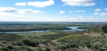 Snake river in Hagerman Fossil Beds National Monument, Idaho